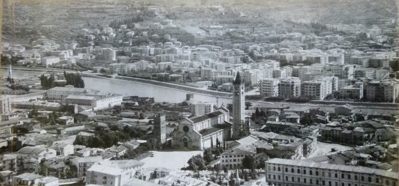 Panoramas of Verona in about half of XX century. In the middle the Saint Zeno's Church